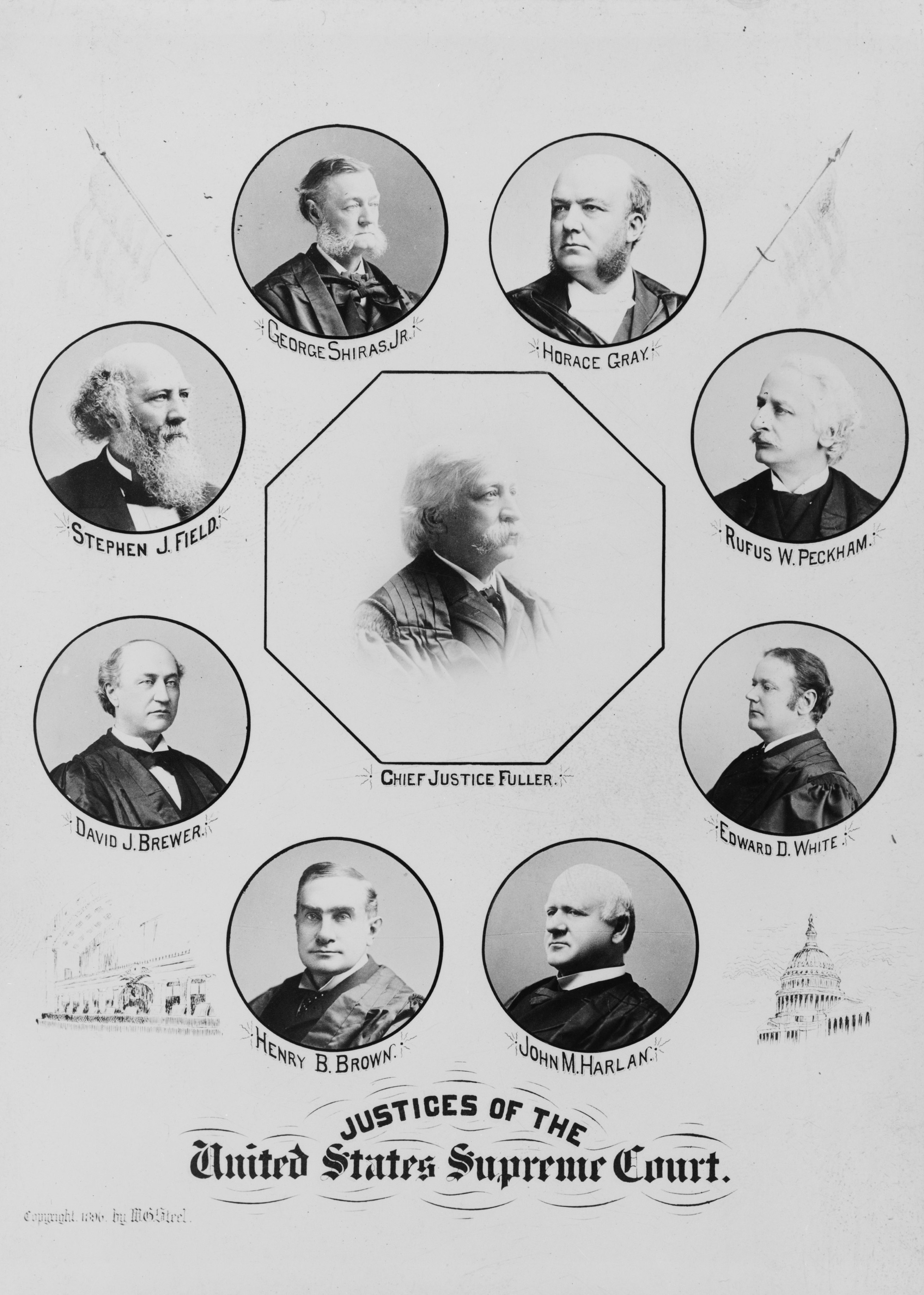 Justices of the United States Supreme Court (portraits of Chief Justice Fuller, Horace Gray, Rufus W. Peckham, Edward D. White, John M. Harlan, Henry B. Brown, David J. Brewer, Stephen J. Field, and George Shiras, Jr.)